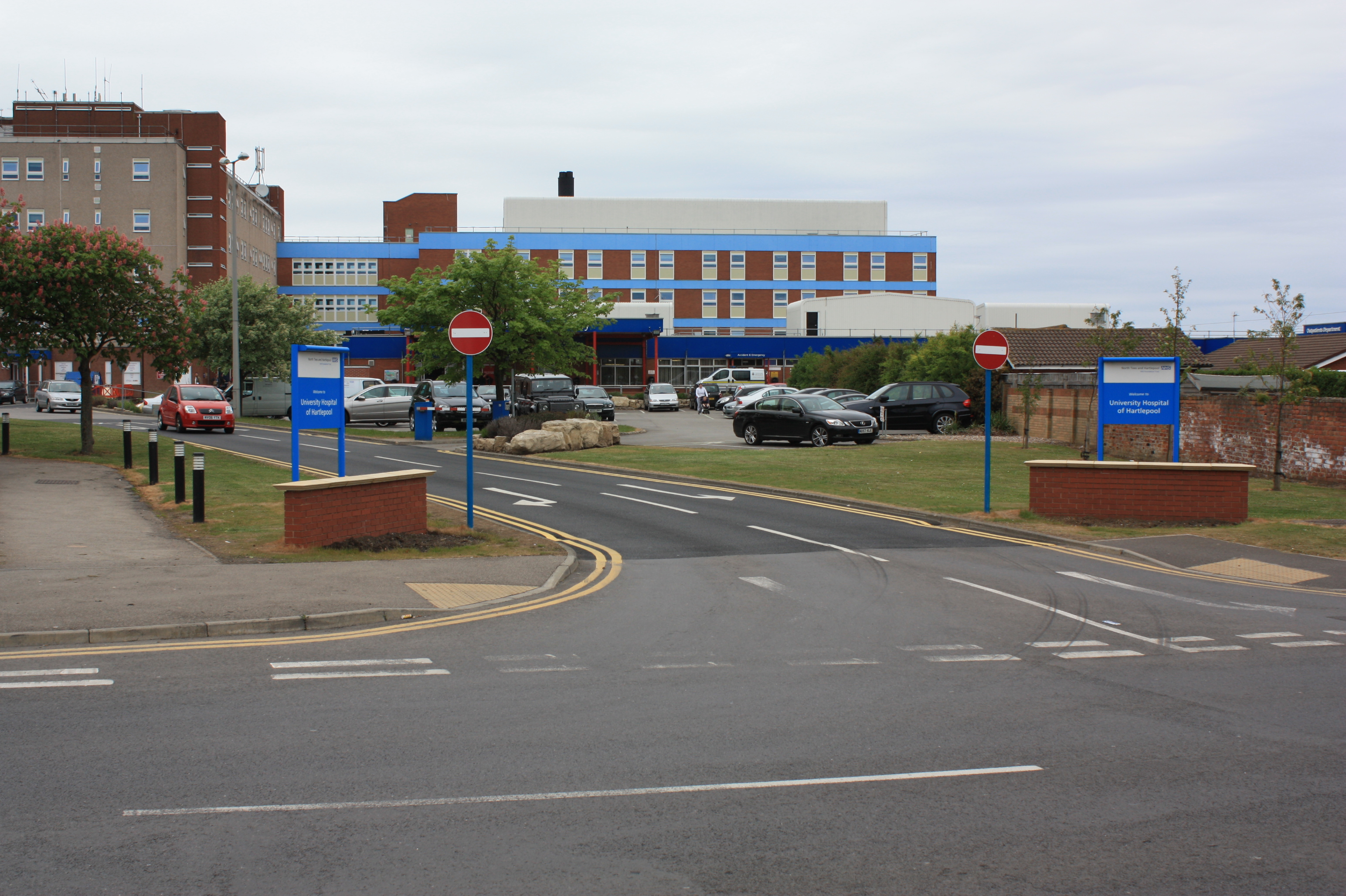 Road junction on Holdforth Road